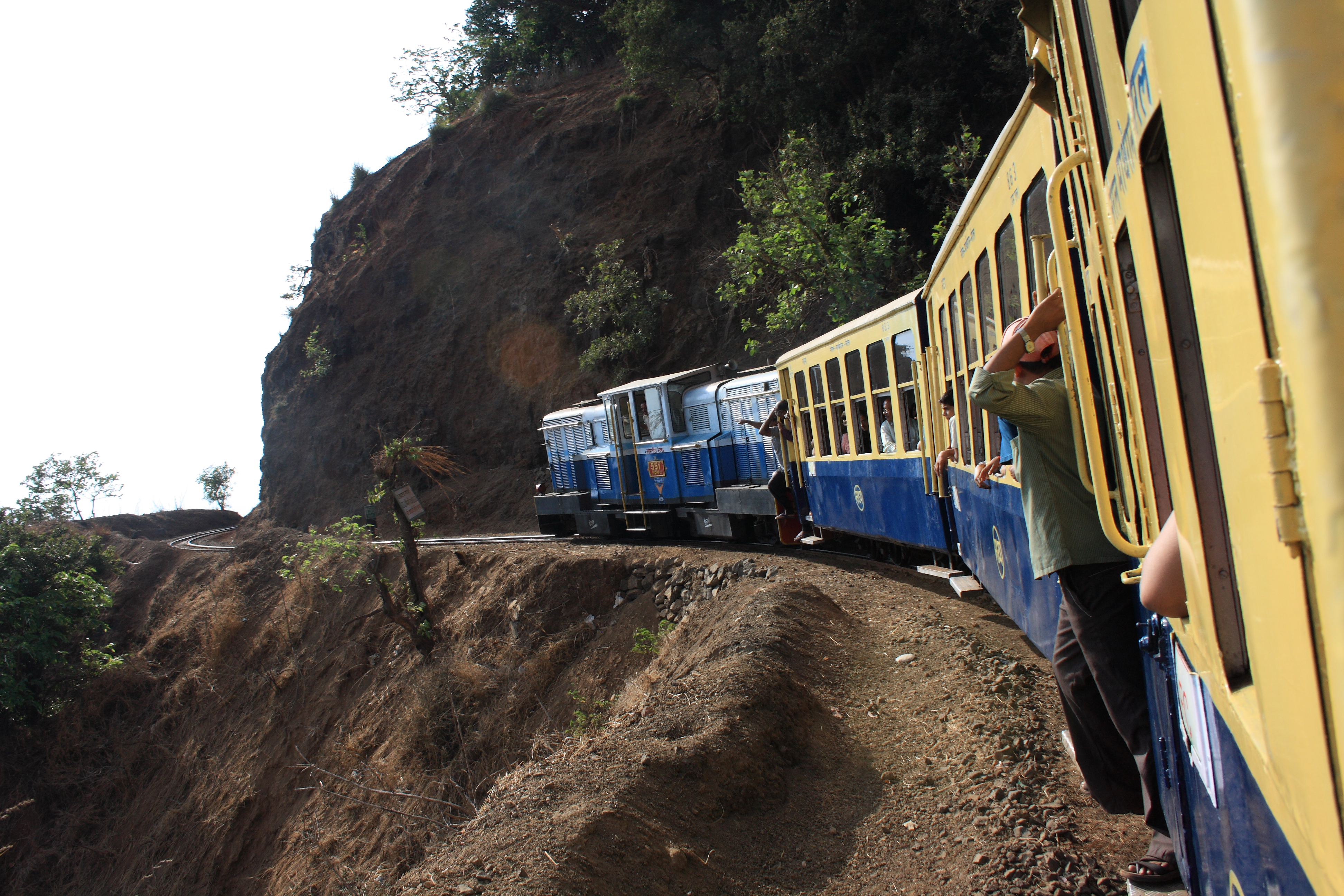 The train to Neral is rolling close to the edge.